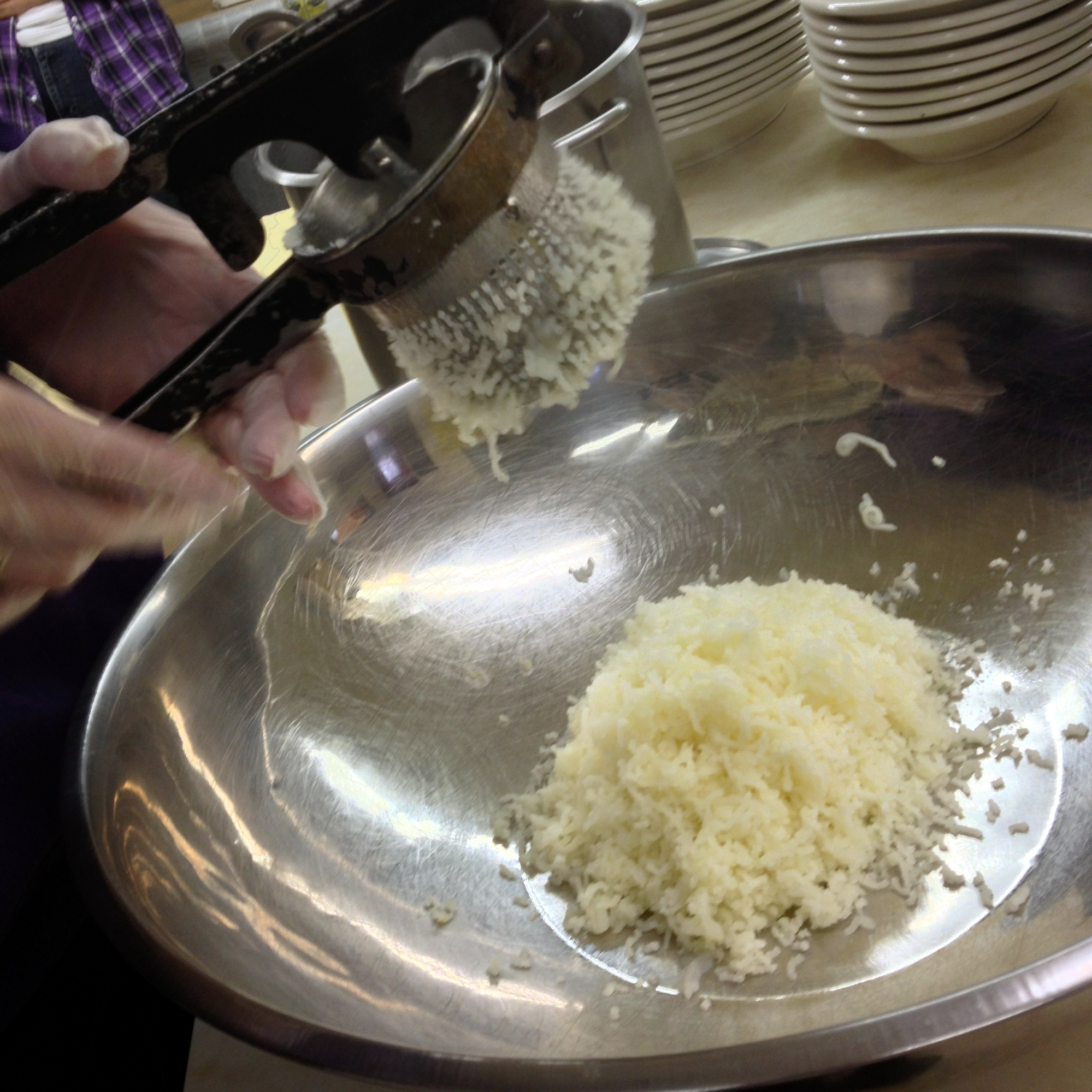 We riced our potatoes...